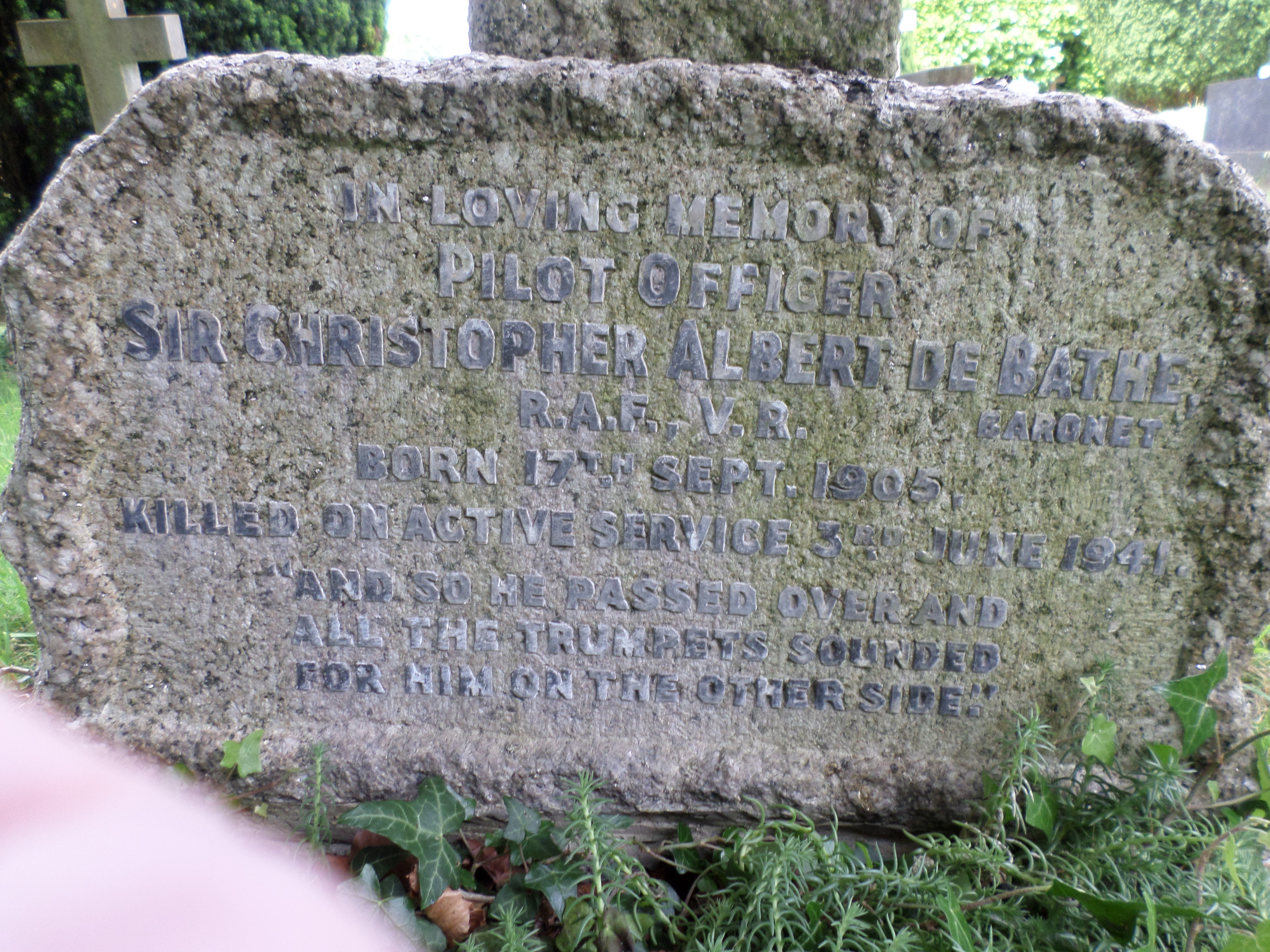 Sir Christopher Albert de Bathe grave